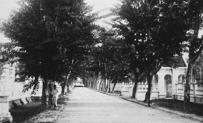 Lane near the palace of the Sultan of Langkat, Tanjungpura